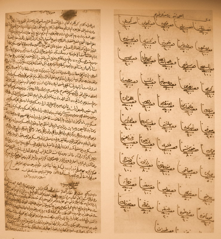 First and last sicil of the Kadi of Monastir